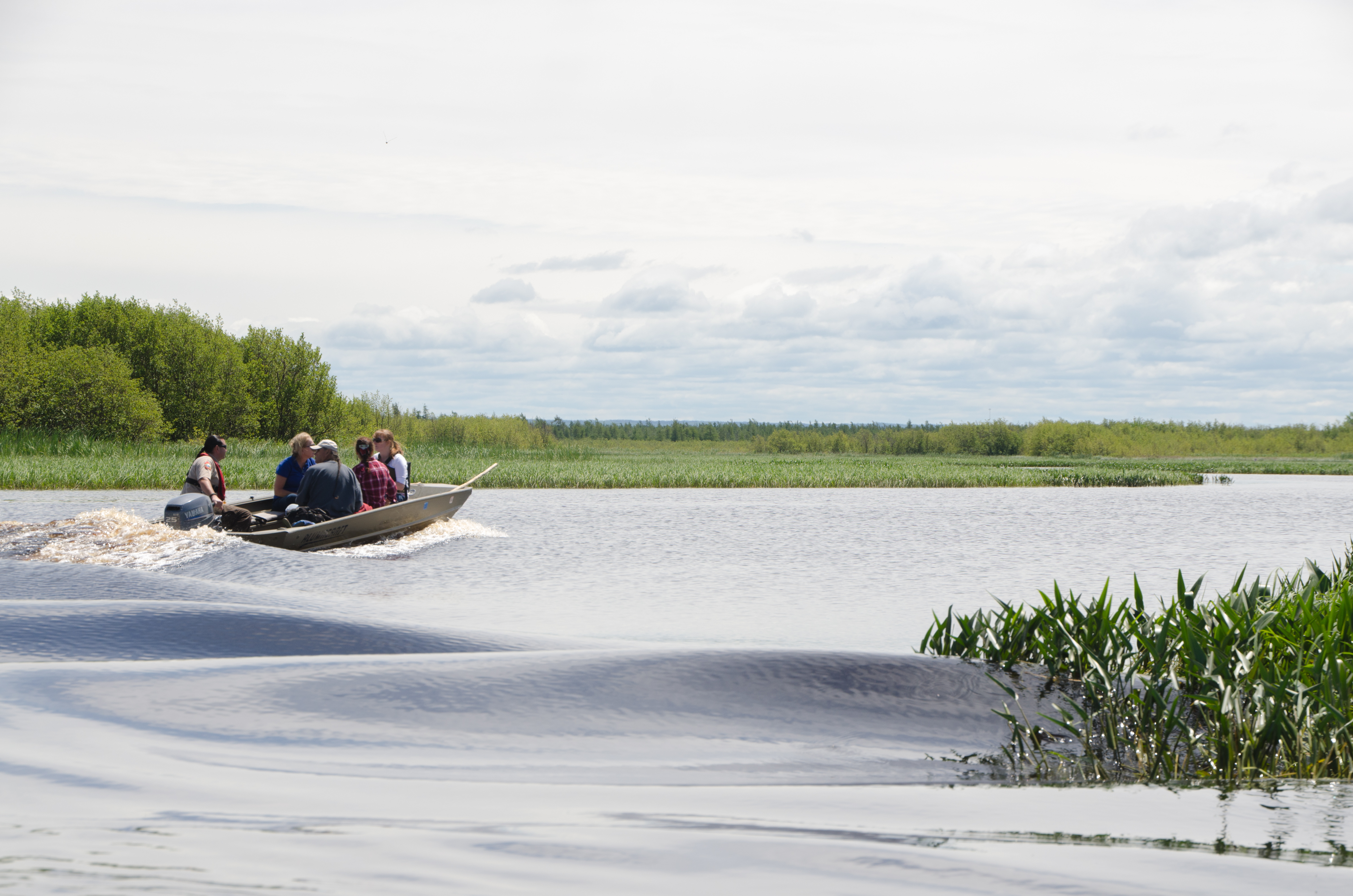 GWOW (6 of 7)